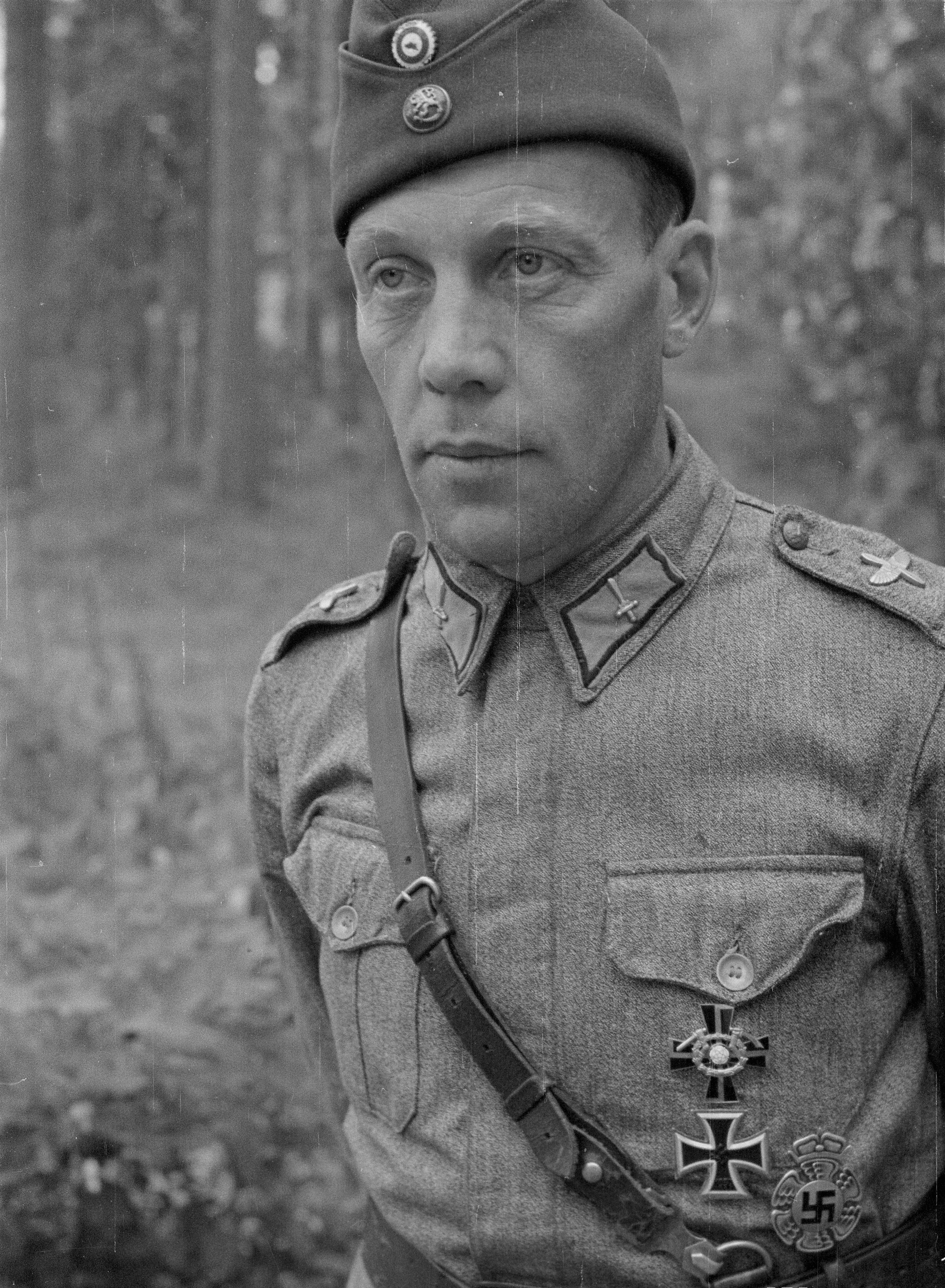 Photograph of the Finnish pilot Viljo Salminen (1905–1991).